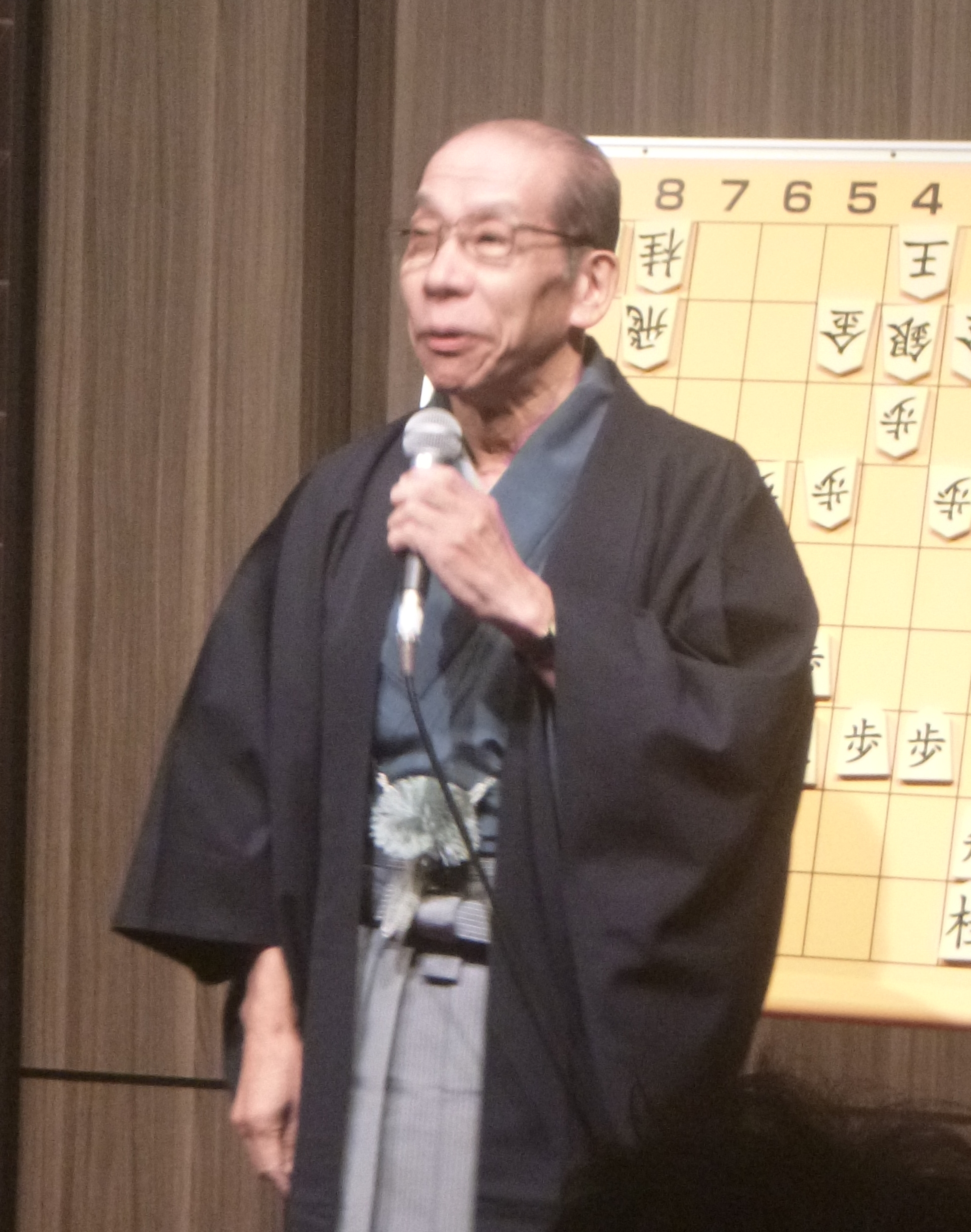 Japanese shogi player Kiyozumi Kiriyama greeting to the audience at the commentary for the 3rd match of 67th Ōza-sen final (in Kobe, Hyōgo, Japan.)